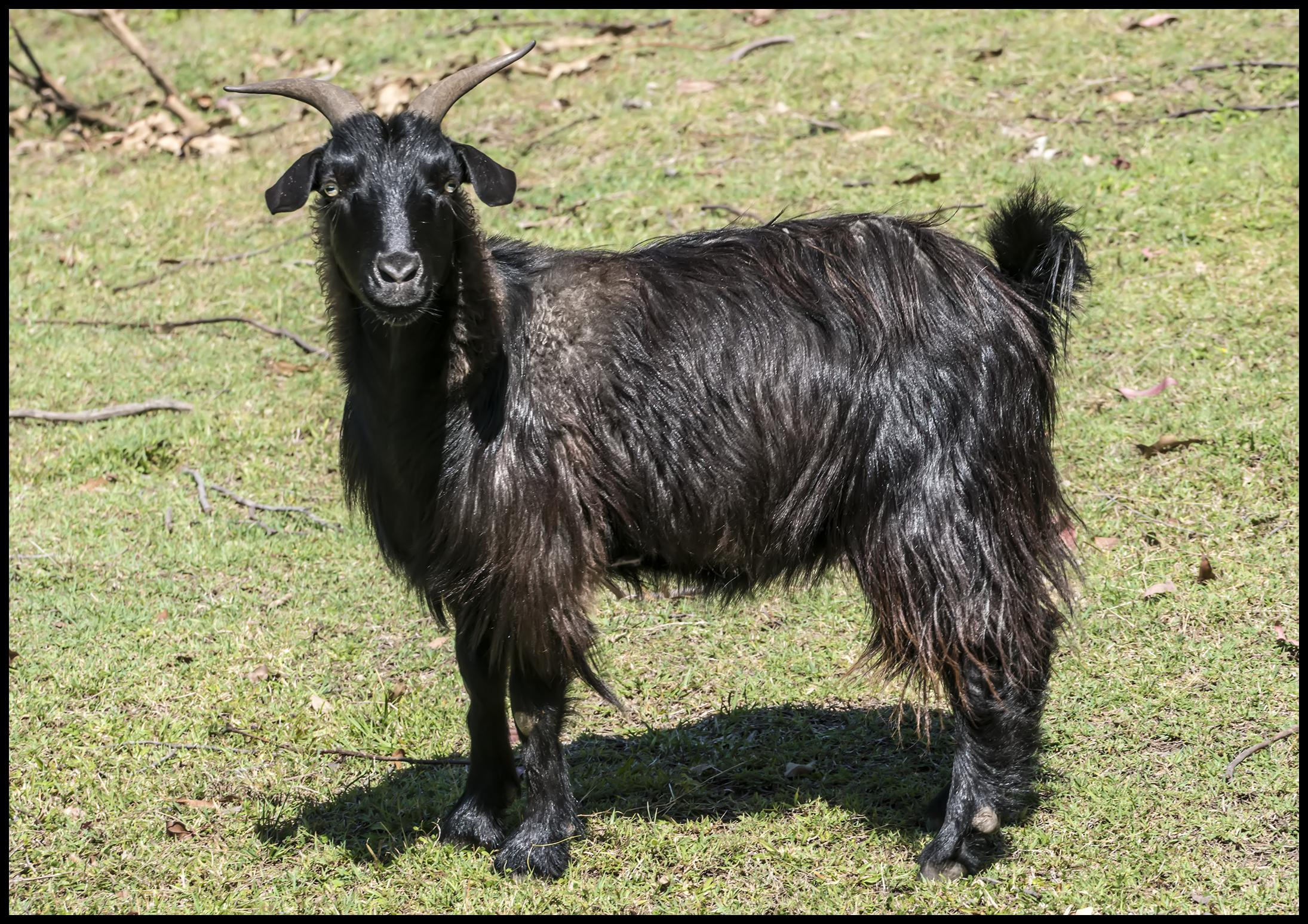 Mr Black Goatee Cedar Creek